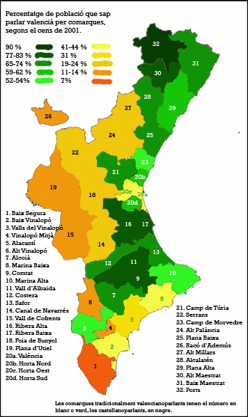 The picture shows the percentage of people from each "comarca" who affirm that they are able to speak Valencian. The data are taken from the 2001 census.